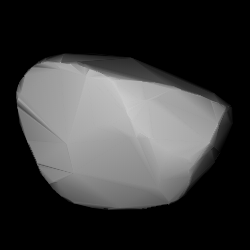 3D convex shape model of 5283 Pyrrhus, computed using light curve inversion techniques. J. Hanuš, J. Ďurech, M. Brož, B. D. Warner (June 2011). "A study of asteroid pole-latitude distribution based on an extended set of shape models derived by the lightcurve inversion method". Astronomy and Astrophysics 530: A134. ISSN 0004-6361. arXiv